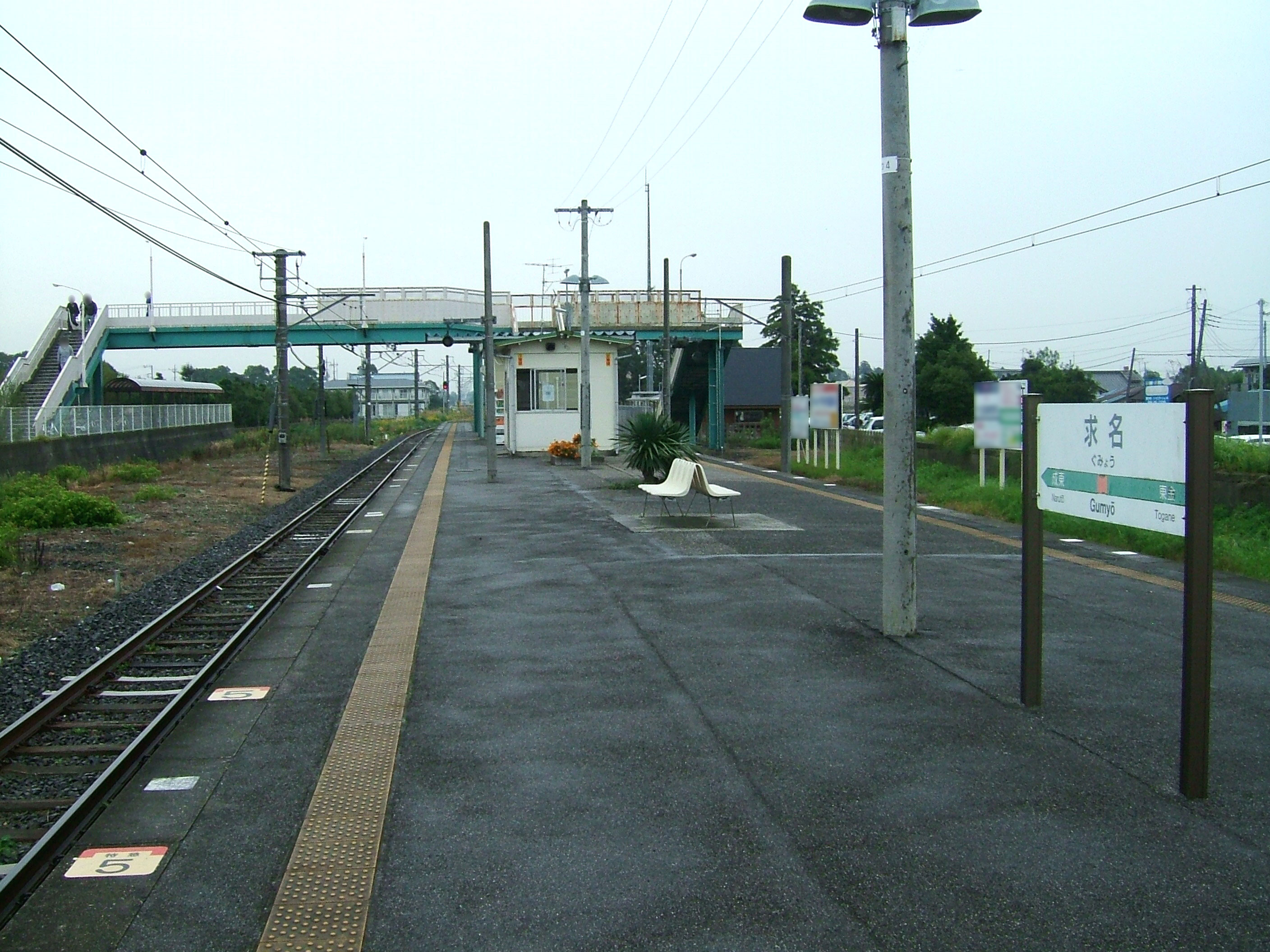 Gumyō Station platform (East Japan Railway Tōgane Line)